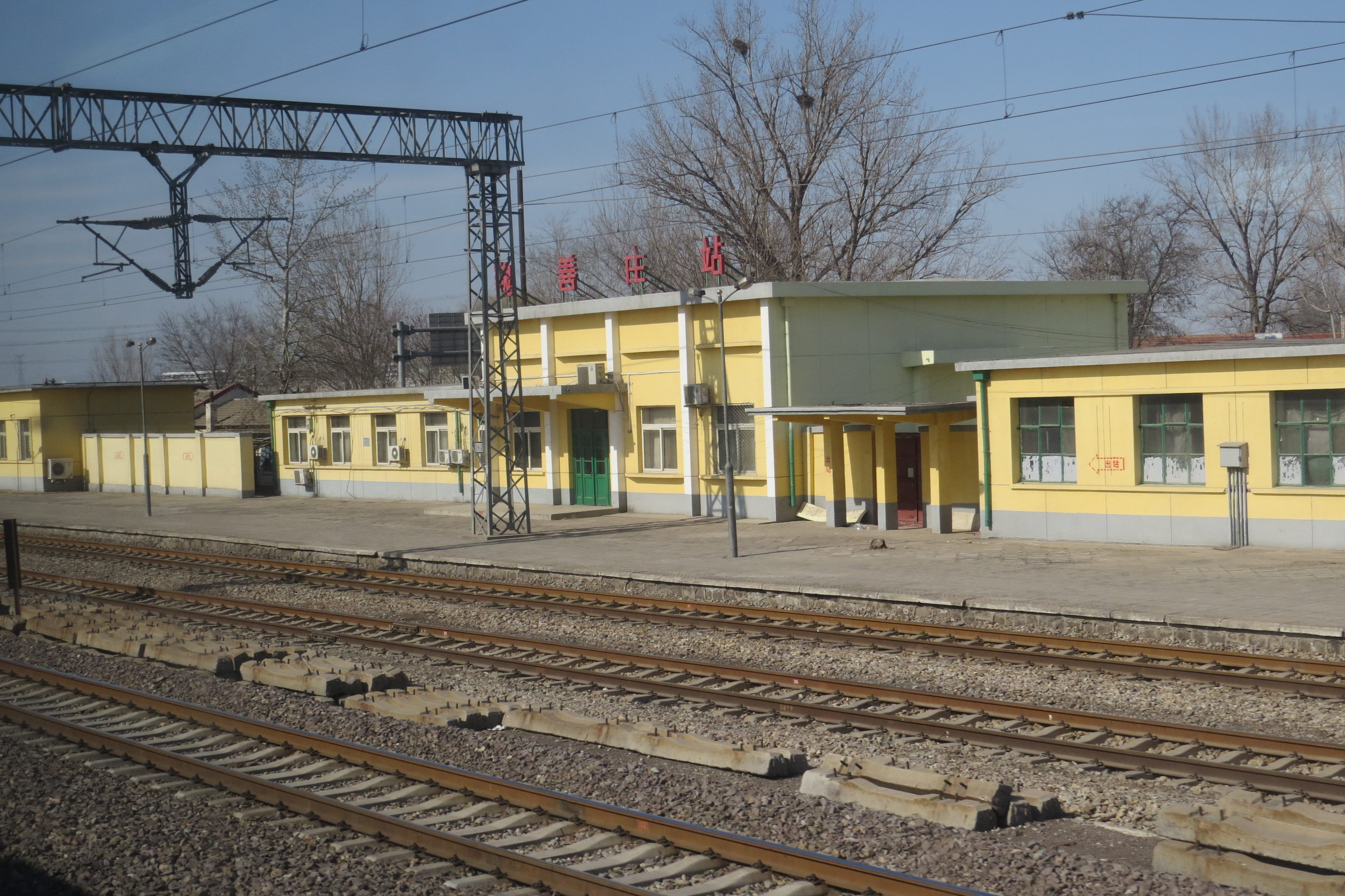 Taken from T58.